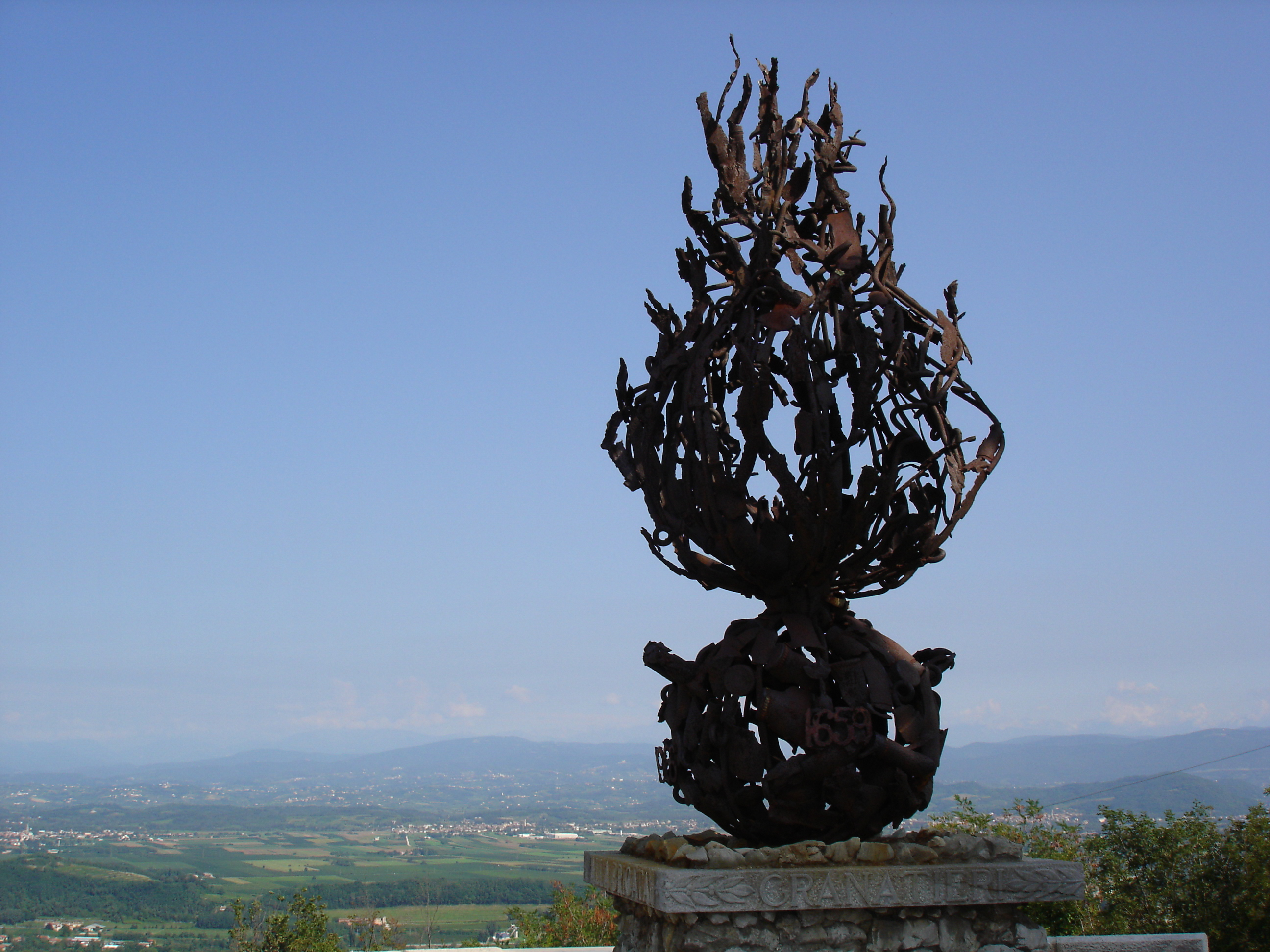 Monte San Michele, with Carsoplatån in the background.